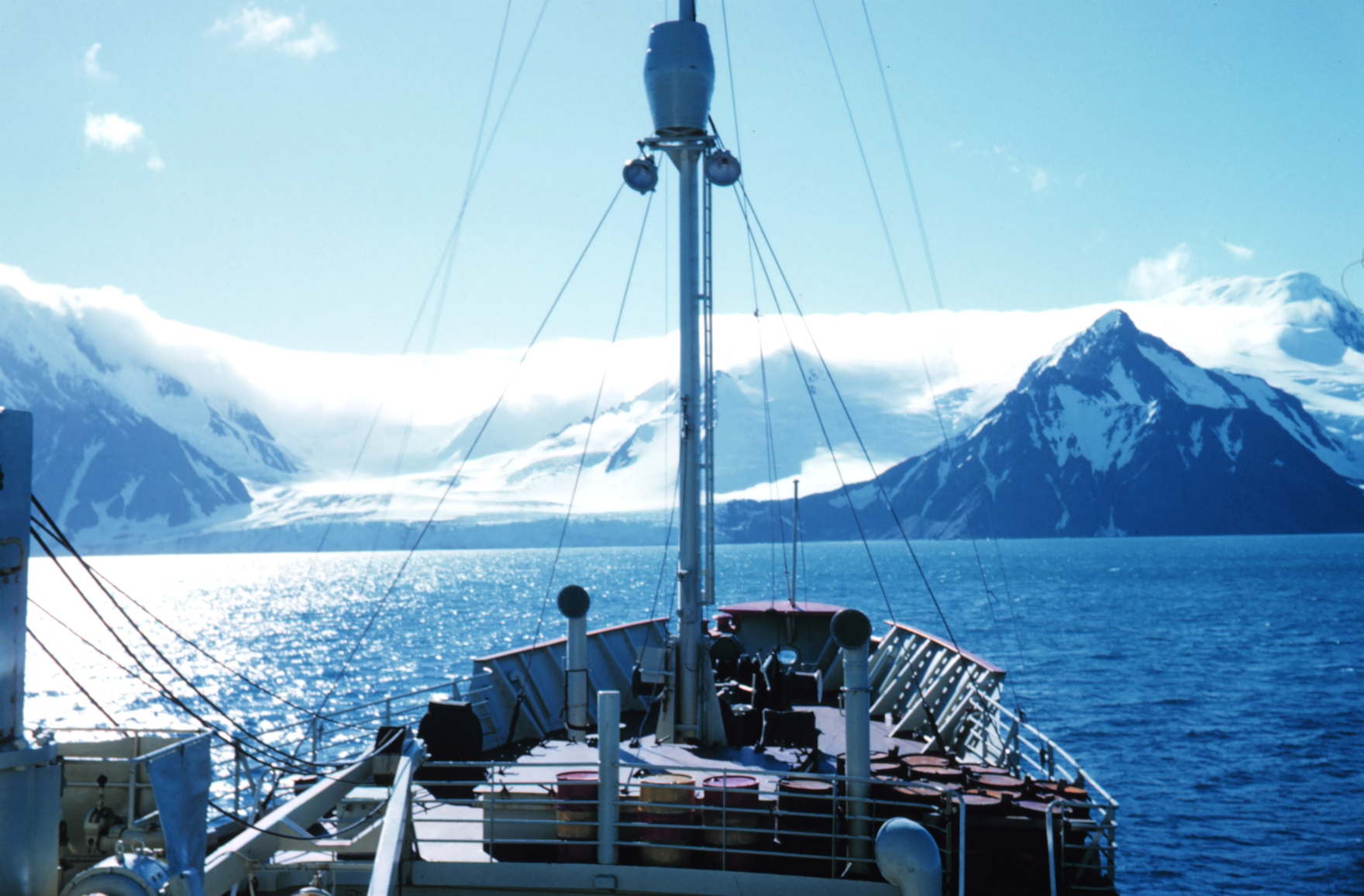 Approaching Elephant Island, South Shetland Islands, Antarctica